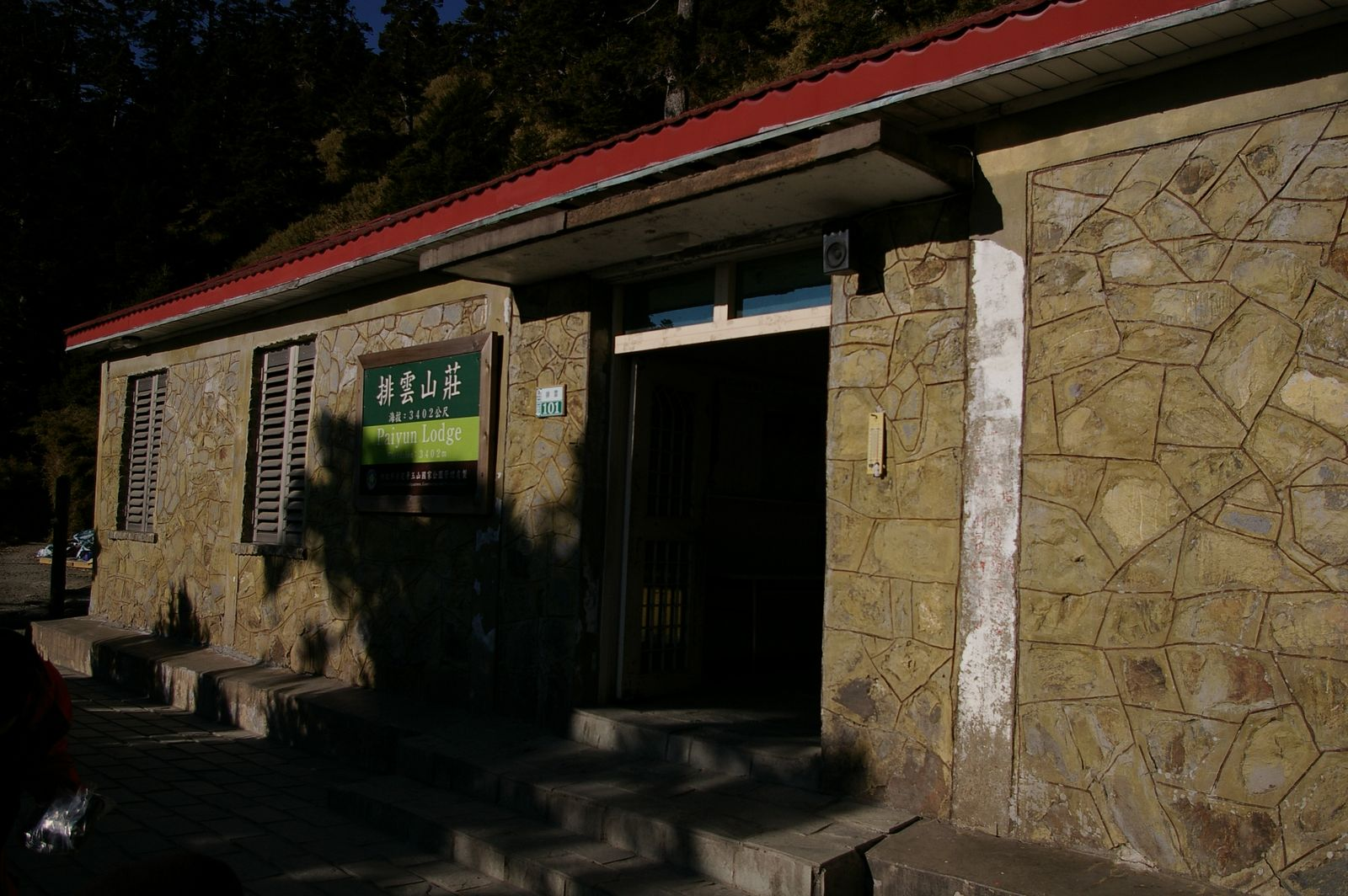 The main gate of Paiyun Lodge.中文（中国大陆）: 排云山庄正门口。